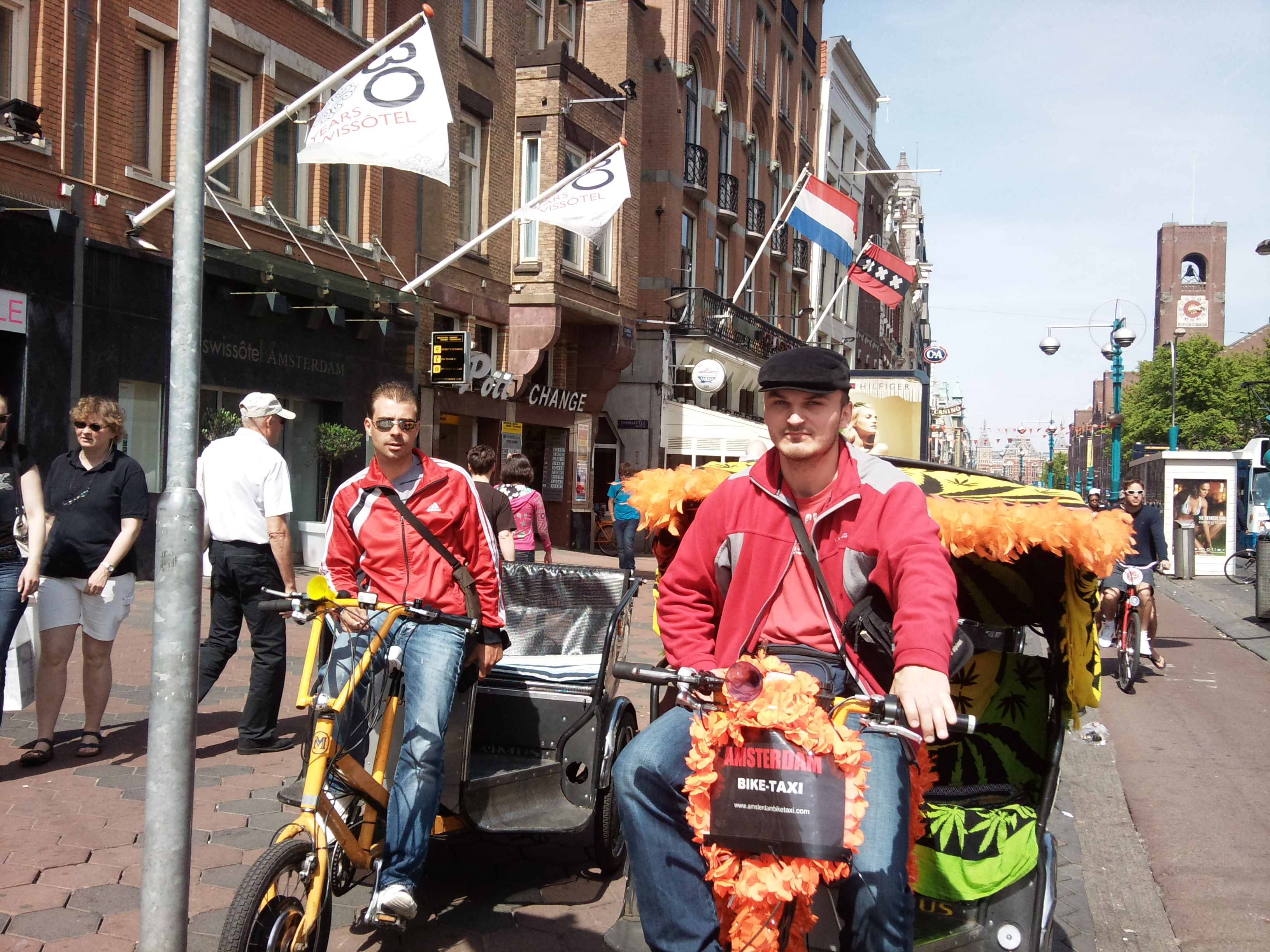 amsterdam bike taxi drivers on Damrak, near Dam Square